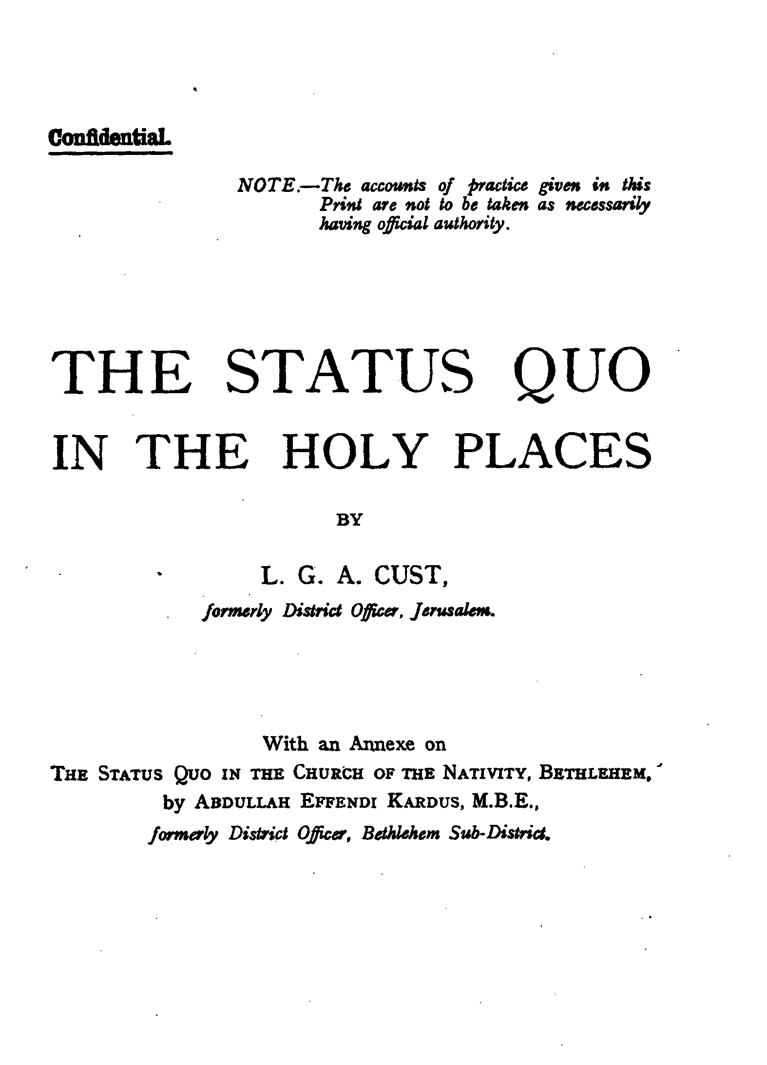 „The Status Quo in the Holy Places” by Lionel George Archer Cust